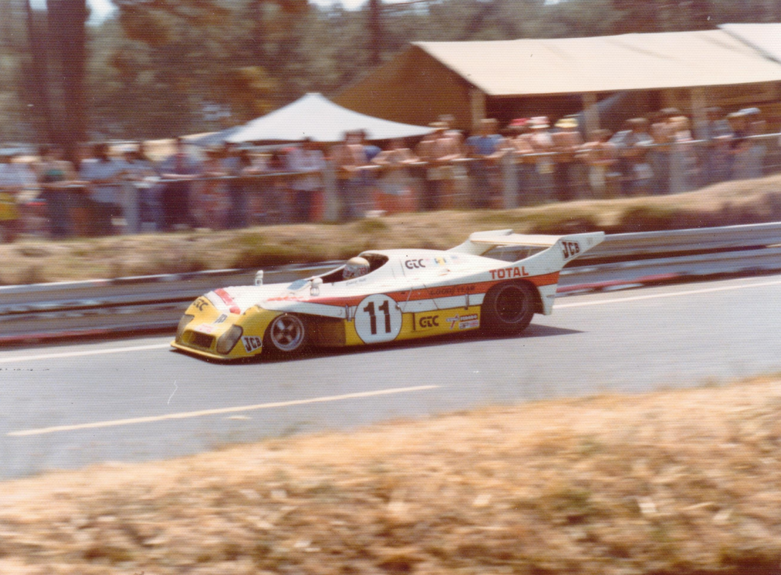 The No. 11 Grand Touring Cars Mirage GR8-Ford Cosworth at the 1976 24 Hours of Le Mans